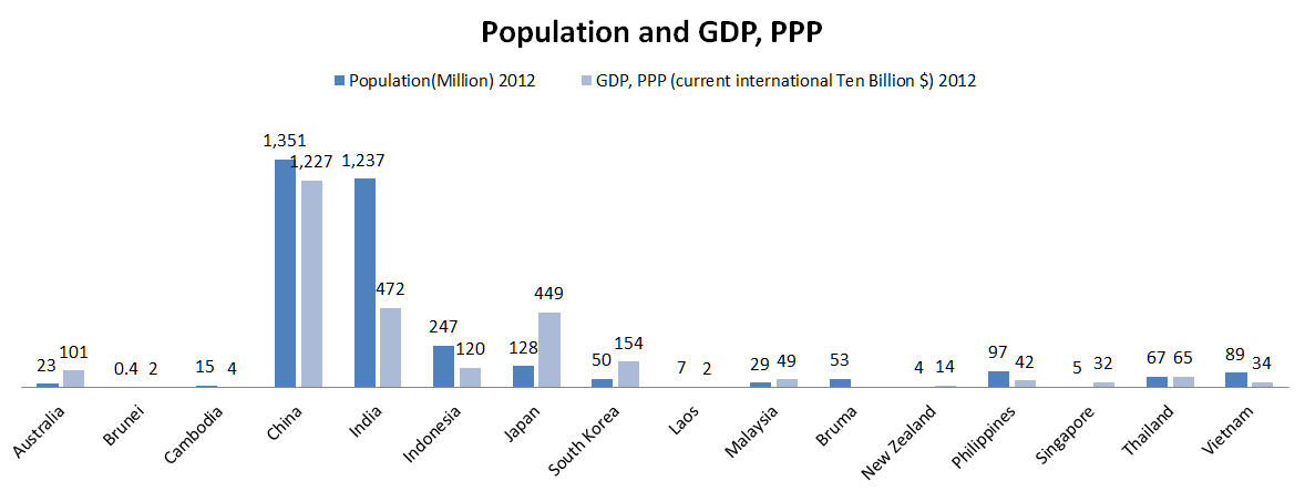 RCEP Member : Population and GDP, PPP (The World Bank)